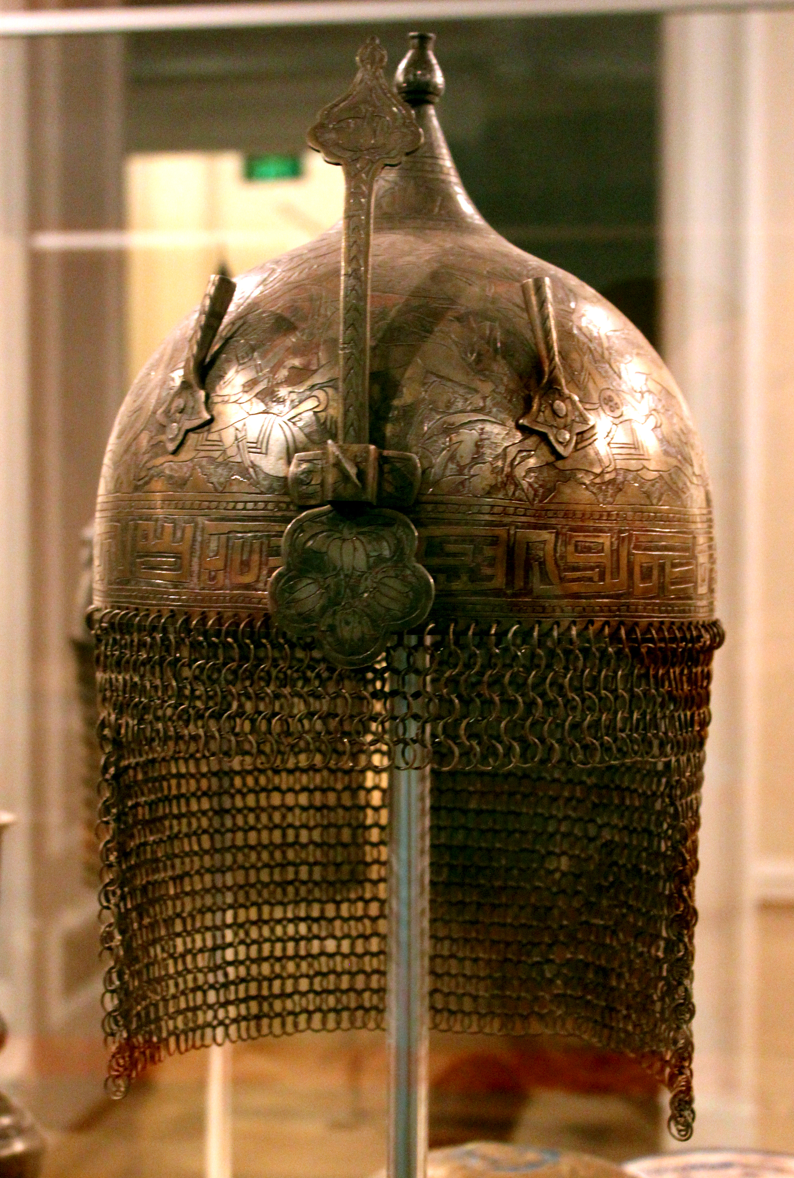 Medieval azerbaijani helmet (Karakoyunlu)